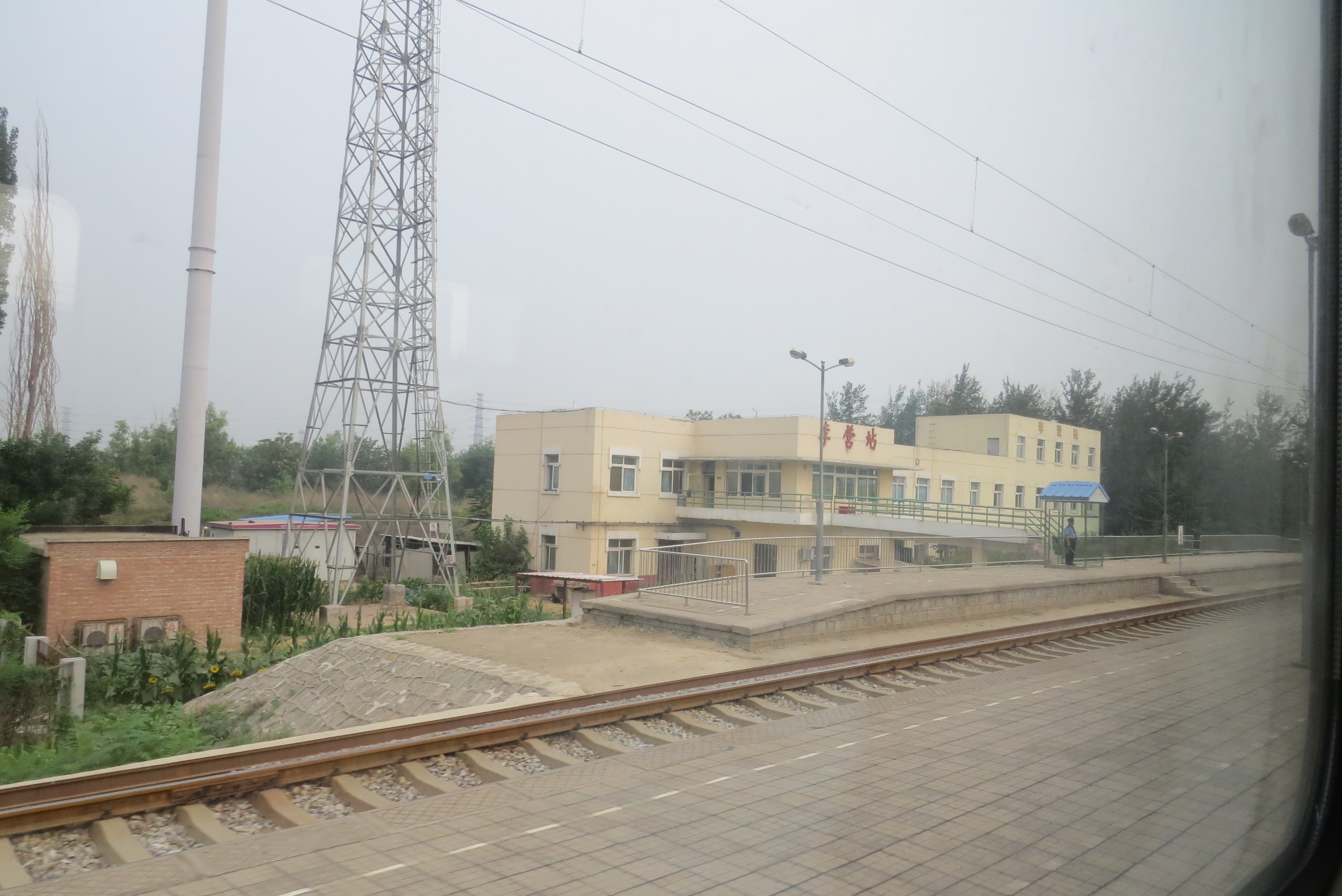 Taken from K148. This little station, without passenger transport, has a neat building.